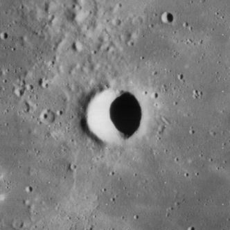 Hortensius A crater, on the moon.